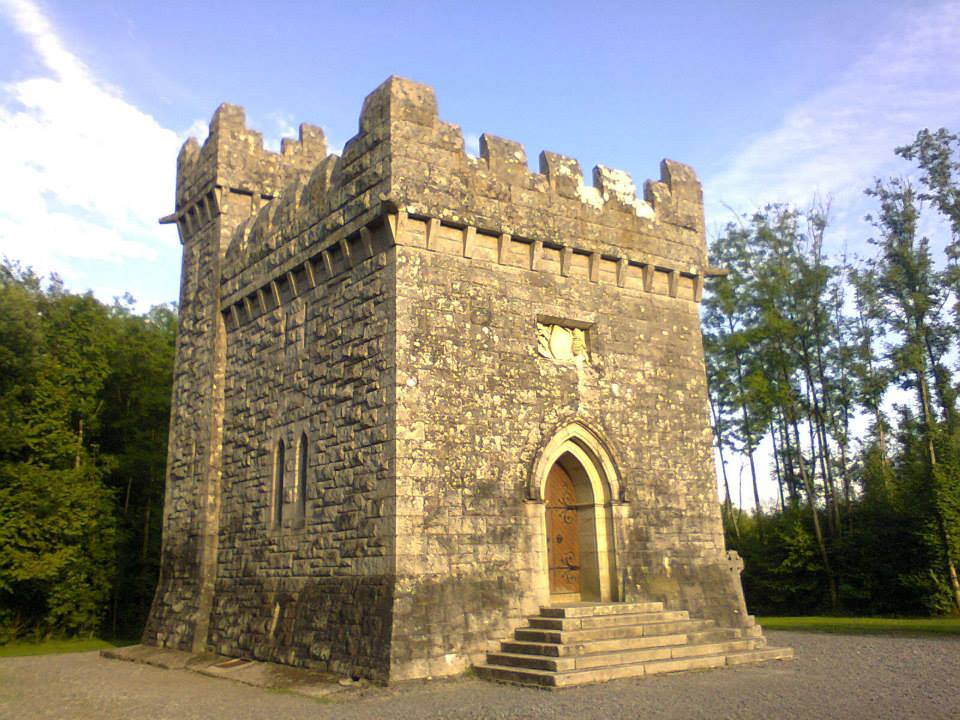 The Ffrench Mausoleum (2013)